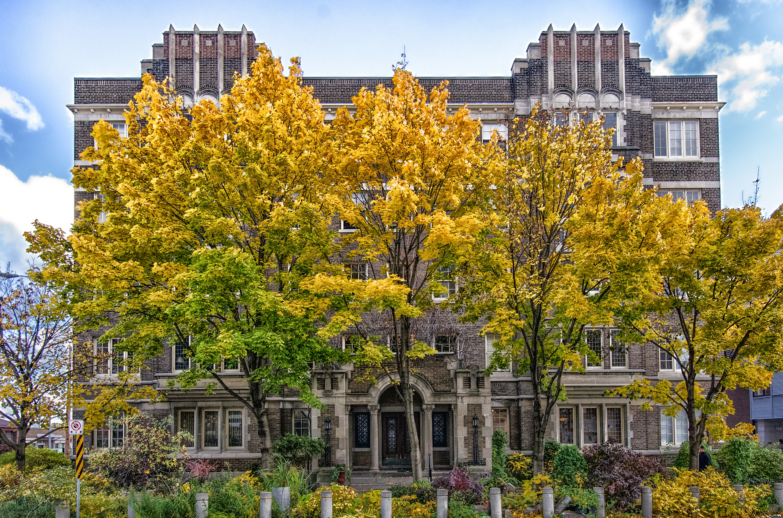 Photograph of the primary (north) elevation of the Windsor Arms Apartments, taken on 20 October 2012.